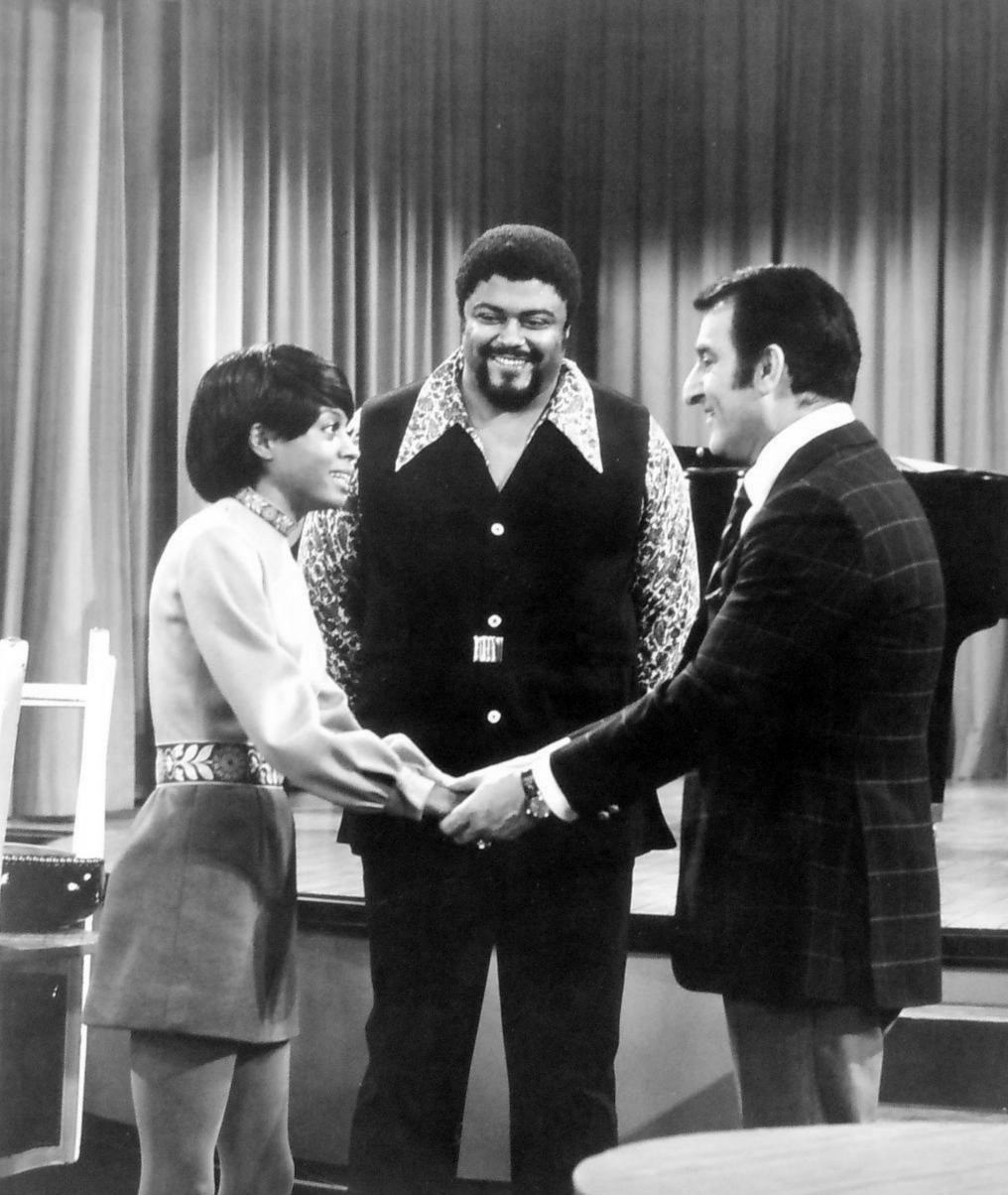 Photo of Diana Ross, football player and actor Roosevelt Grier as guest stars on the Danny Thomas television program Make Room for Granddaddy.